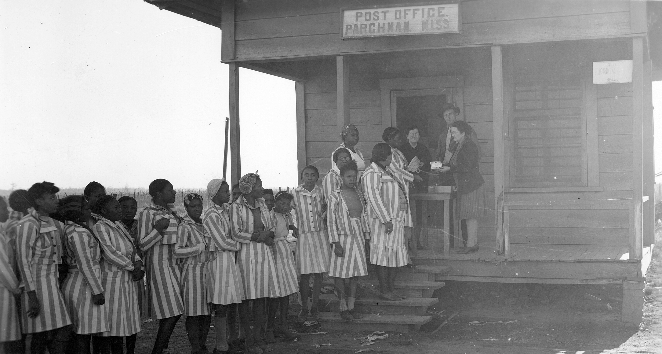 Collection: Mississippi State Penitentiary (Parchman) Photo Collections Call number: PI/PEN/P37.4 System ID: 98992. Link to the catalog Parchman Penal Farm. Female prisoners at the Parchman Post Office. Please see our profile page for information on ordering. Scanned as tiff in 2008/06/20 by MDAH. Credit: Courtesy of the Mississippi Department of Archives and History